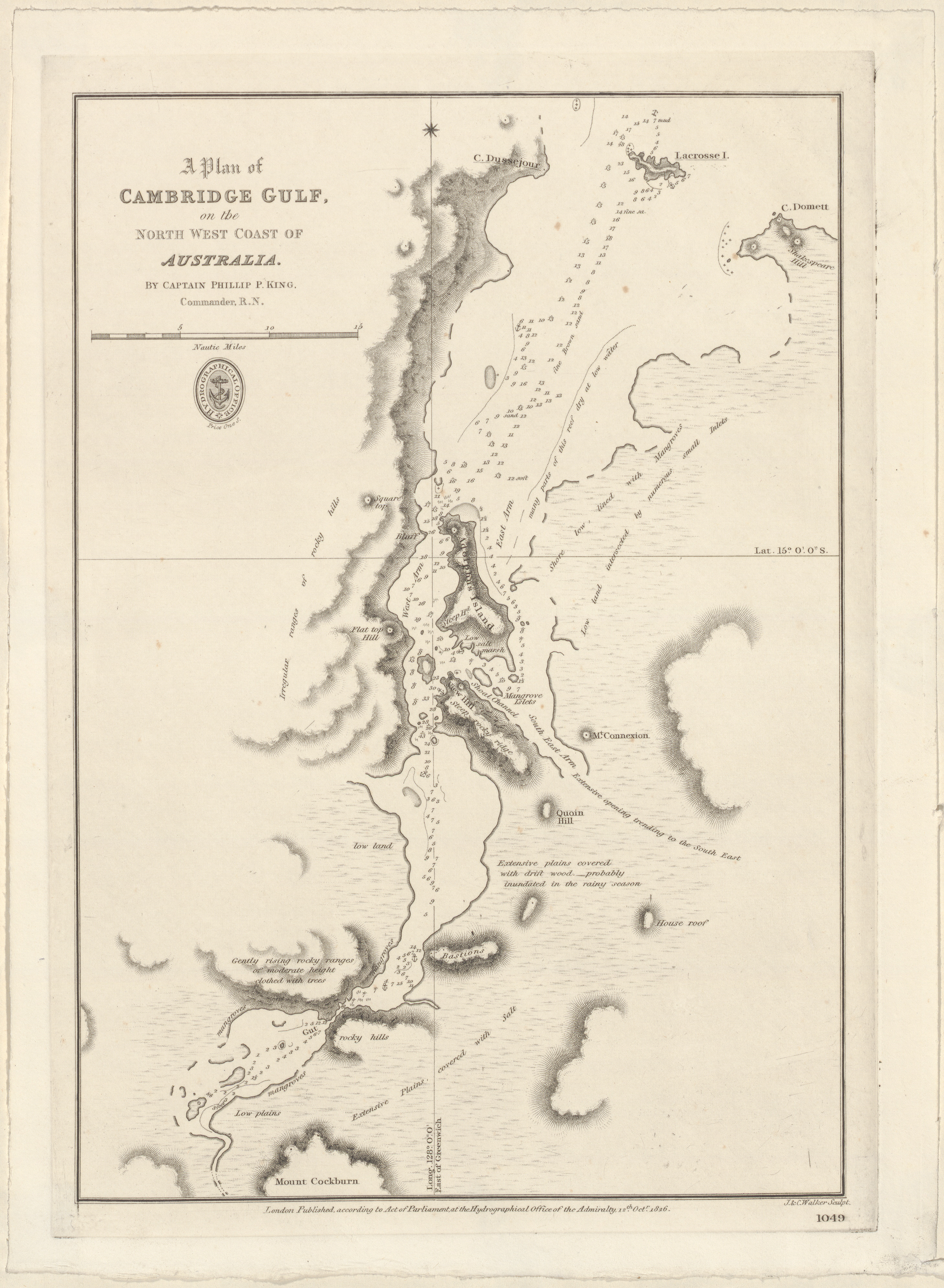 A plan of Cambridge Gulf, on the north west coast of Australia. Surveyed by Captain Phillip P. King, Commander R.N.. Not current - not to be used for navigation!